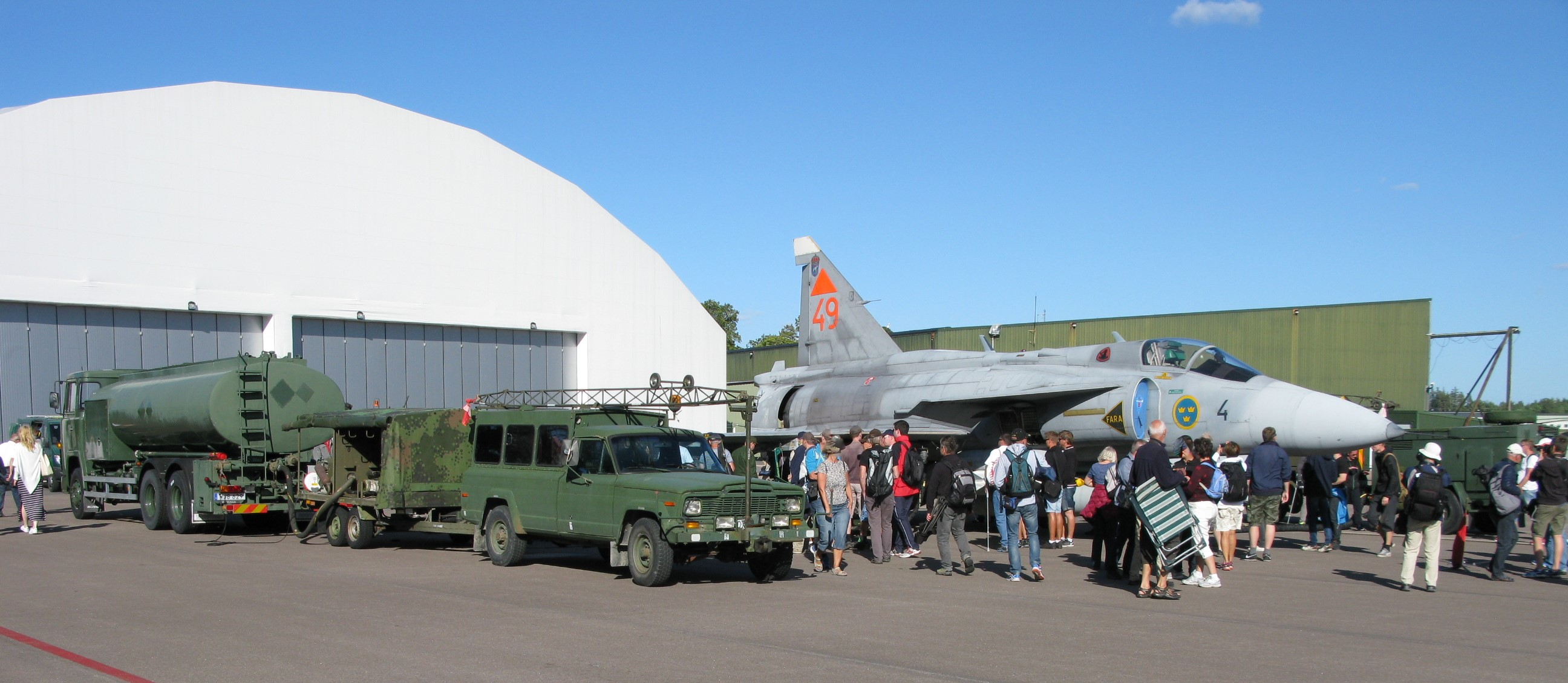 Saab JA37 Viggen. Event: Swedish Armed Forces’ Air Show at Malmen, Linköping 2016.